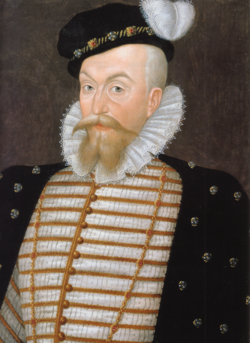 Robert Dudley, 1st Earl of Leicester 1532-1588